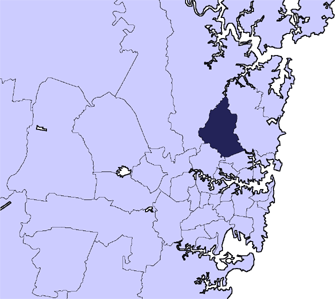 Locator Map Ku-ring-gai sydney.png Based on Image:Ku-ring-gai sydney.png by User:Randwicked.